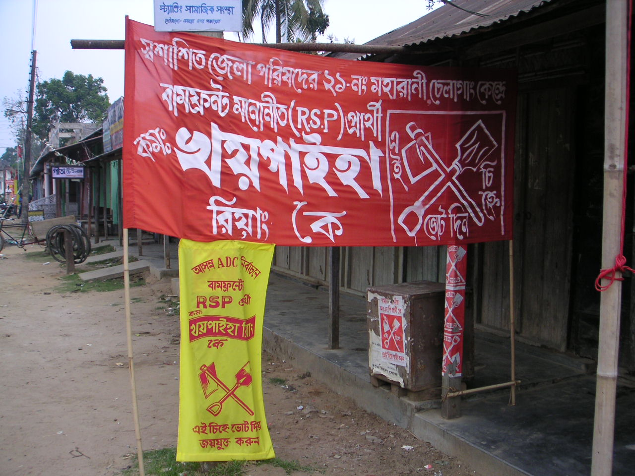 Revolutionary Socialist Party TTAADC electoral propaganda, Amarpur, Tripura. Photo: Soman